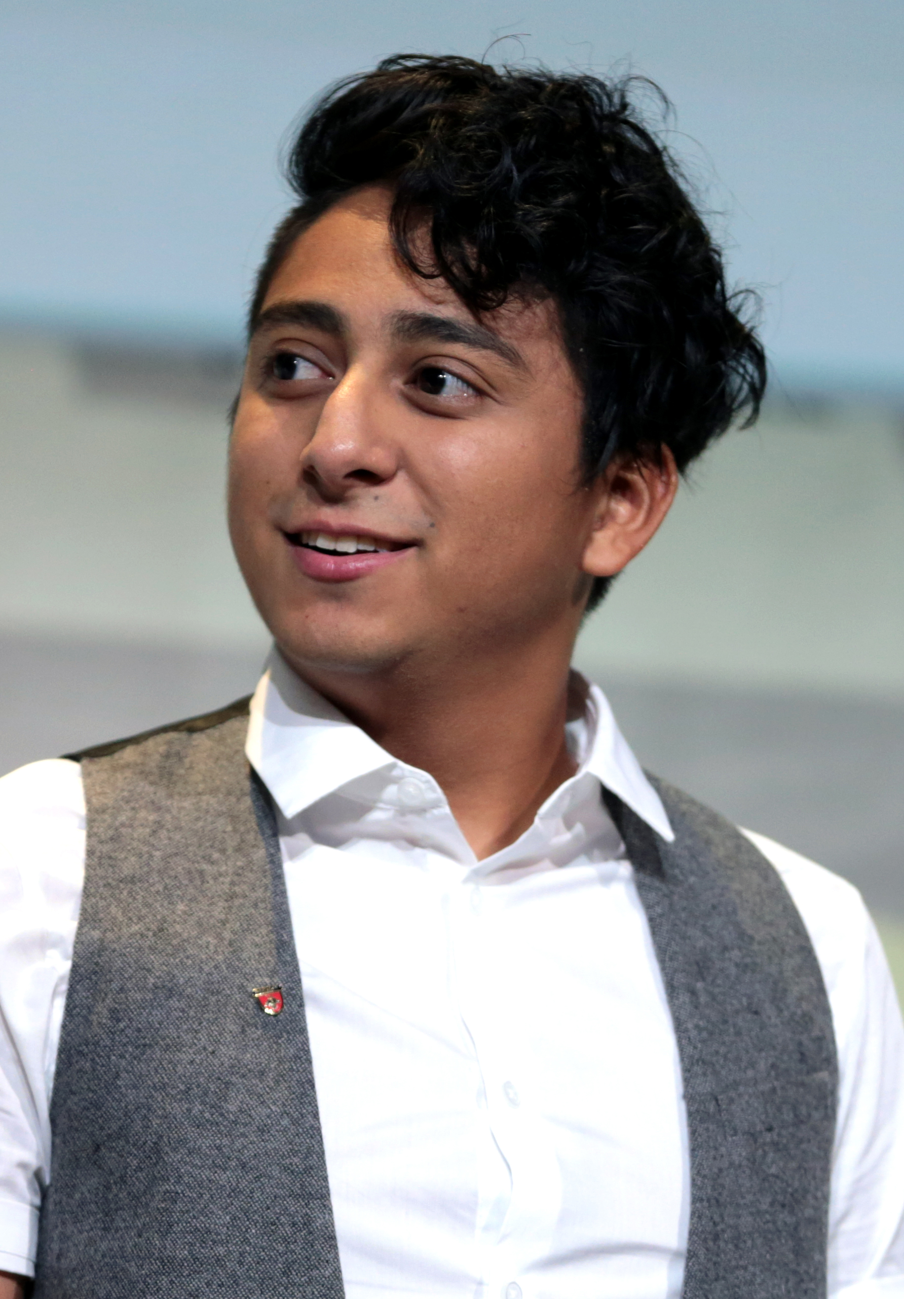 Tony Revolori speaking at the 2016 San Diego Comic-Con International in San Diego, California.